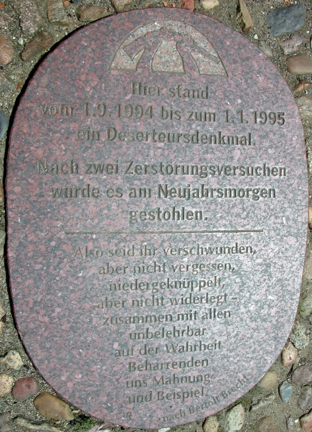 Brunswick, Germany: Commemorative slab for the stolen Deserters’ Monument.